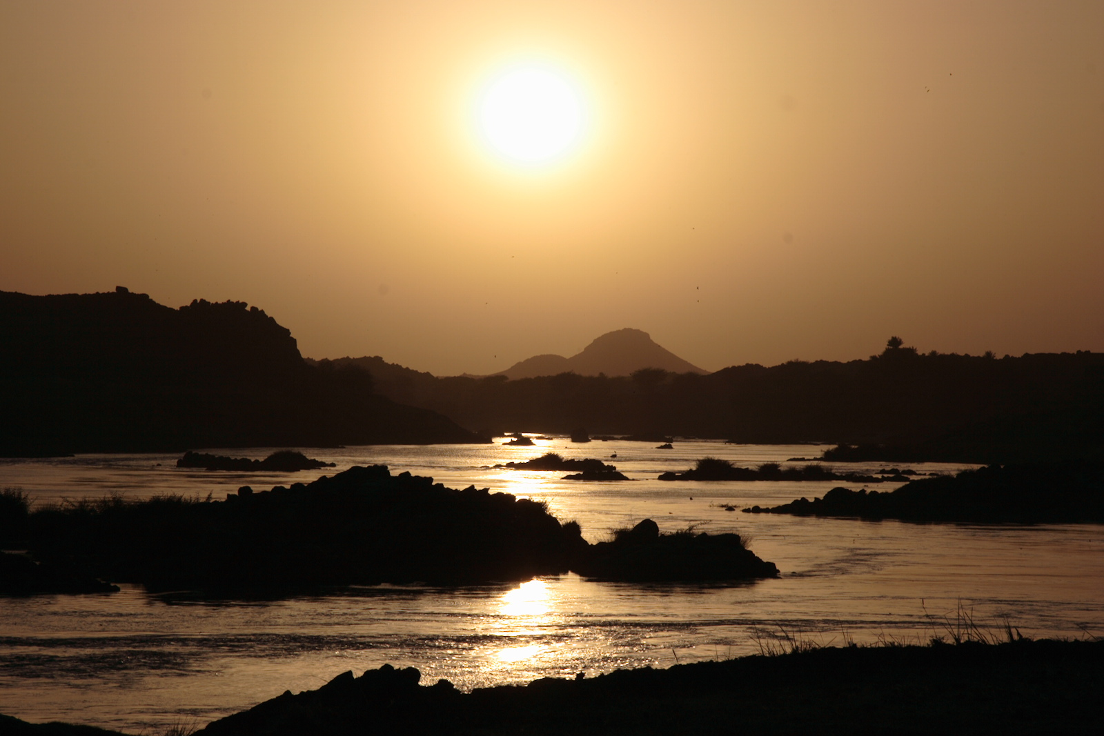 Sunset over the river Nile from Sherari Island, Dar al-Manasir, Northern Sudan.)